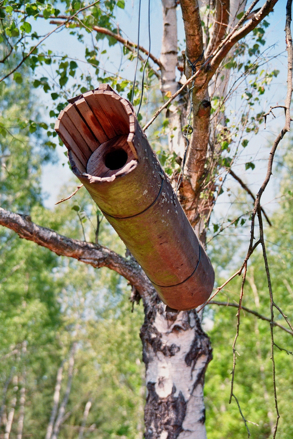 Typical nest box for the Hoopoe (Upupa epops) in the Reicherskreuzer Heide in Brandenburg, Germany.